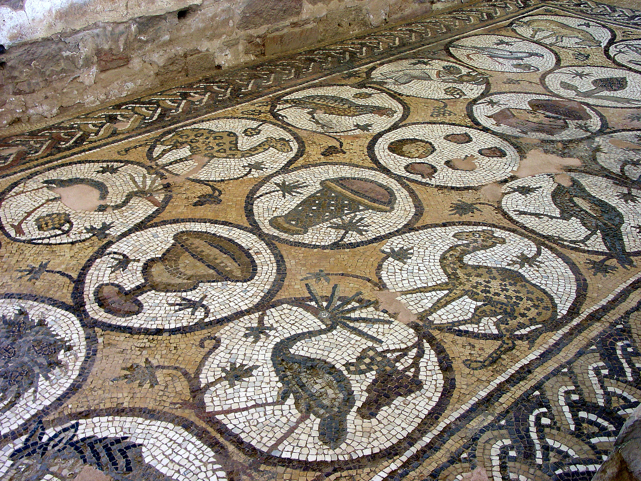 Floor mosaic. Petra Church, Jordan